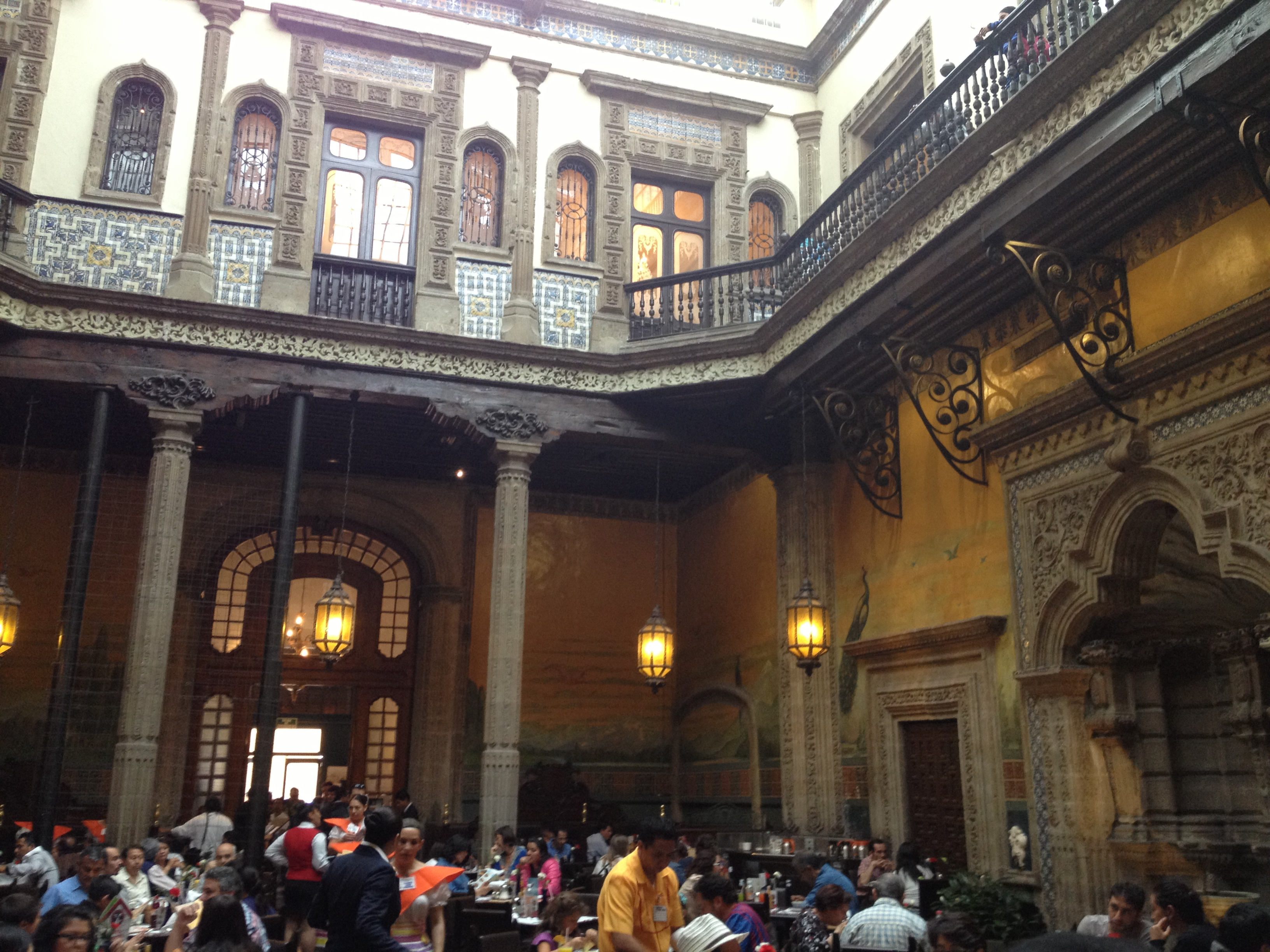 View from downstairs at the Casa de los Azulejos, Mexico City, Mexico.